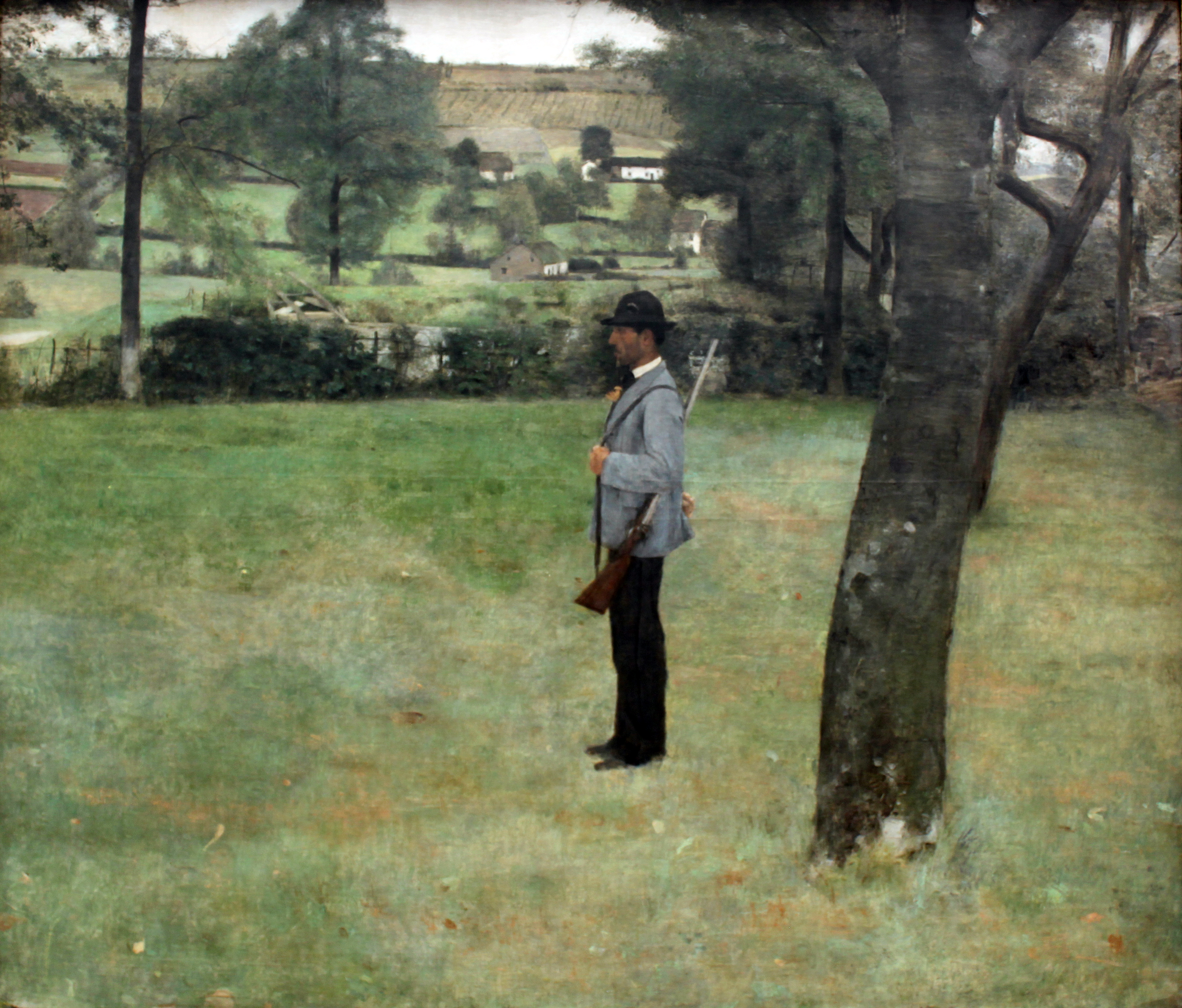 The Game Warden